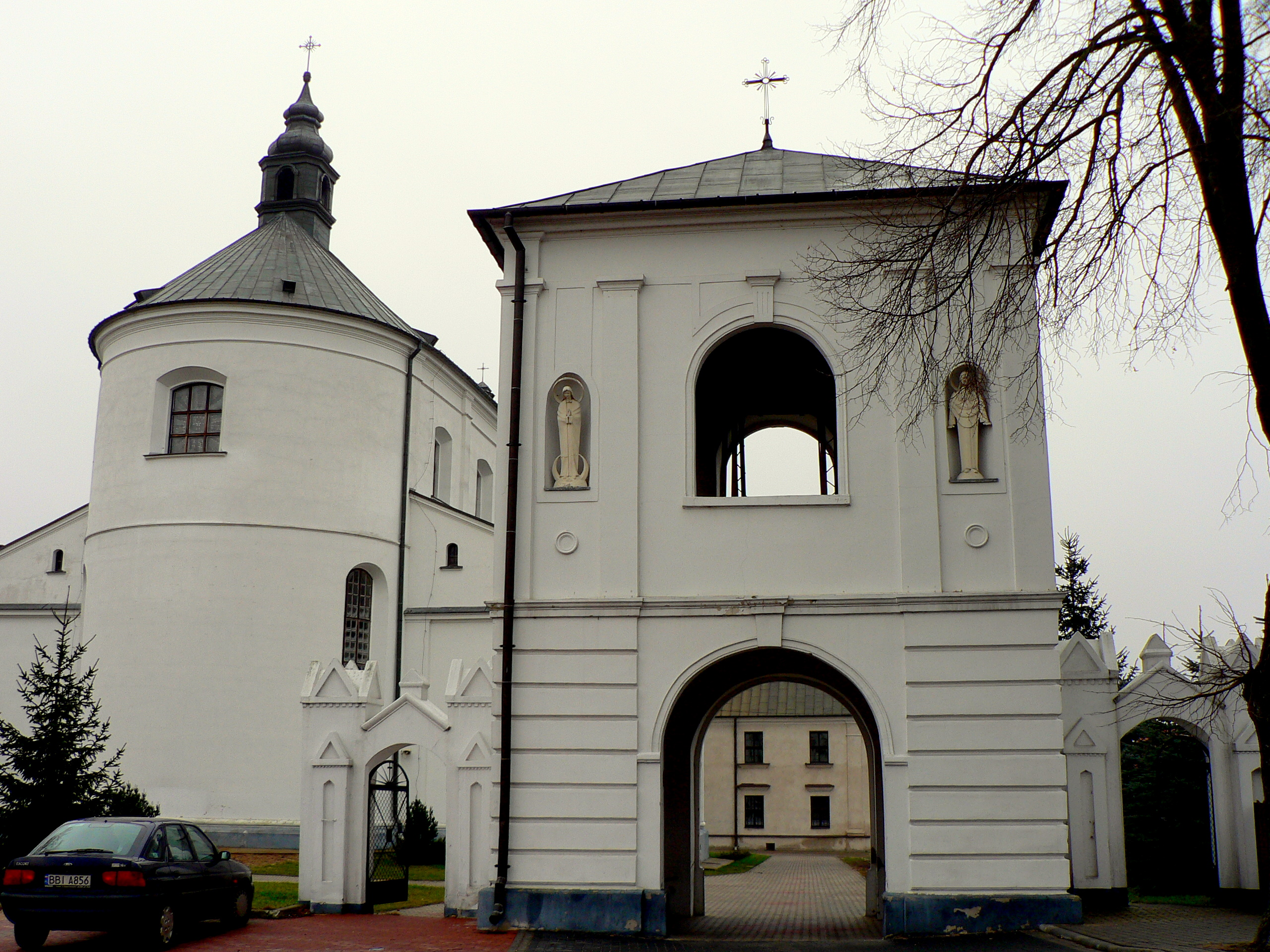 St.Trinity Cathedral in Drohiczyn, Poland